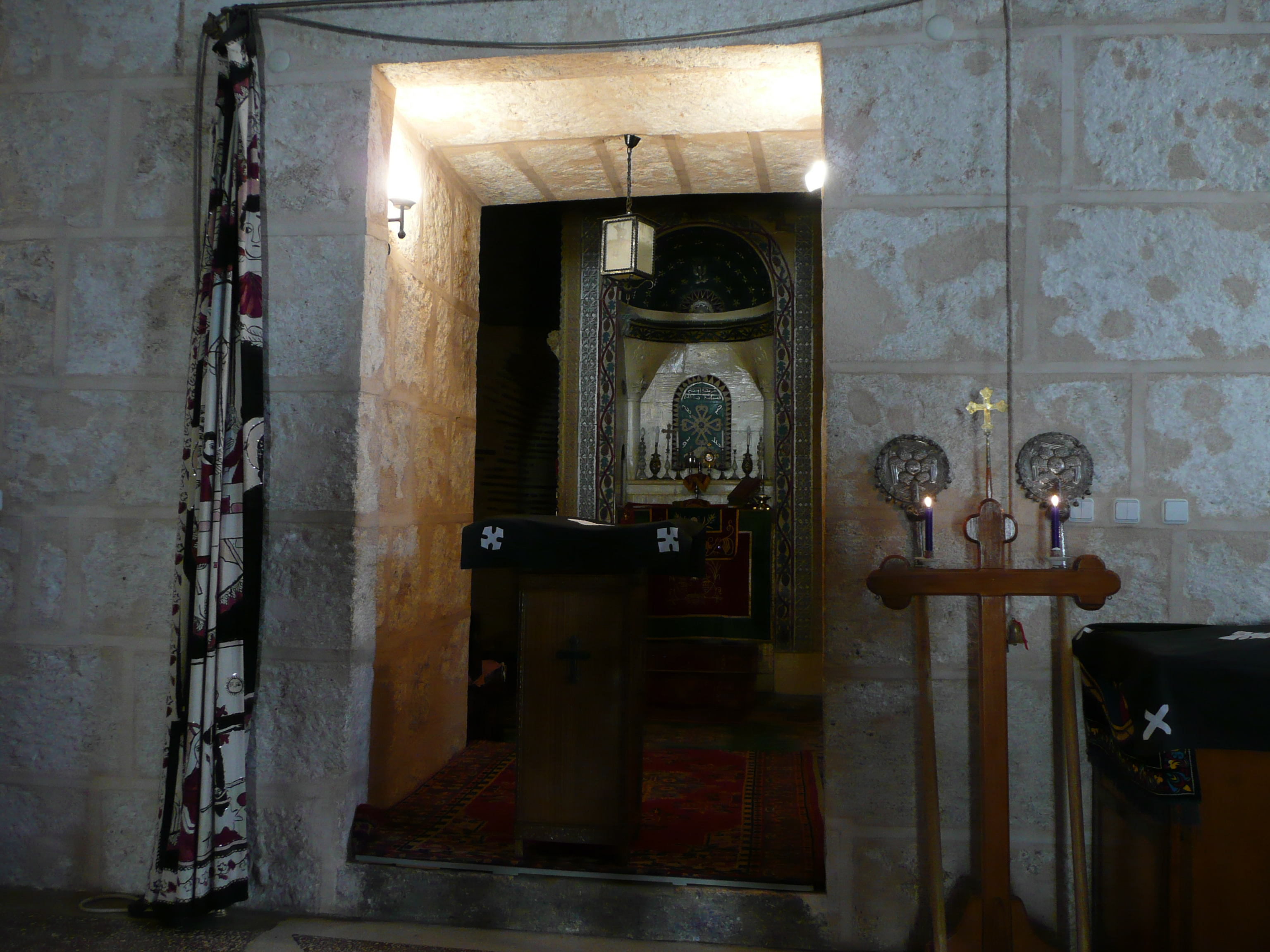 Photographs from Deyrulumur (Mor Gabriel Monastery) , Midyat, Turkey